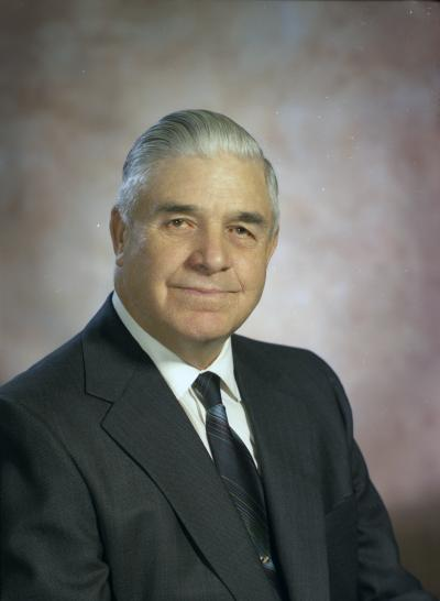 Representative Horace W. Bozarth, 1971